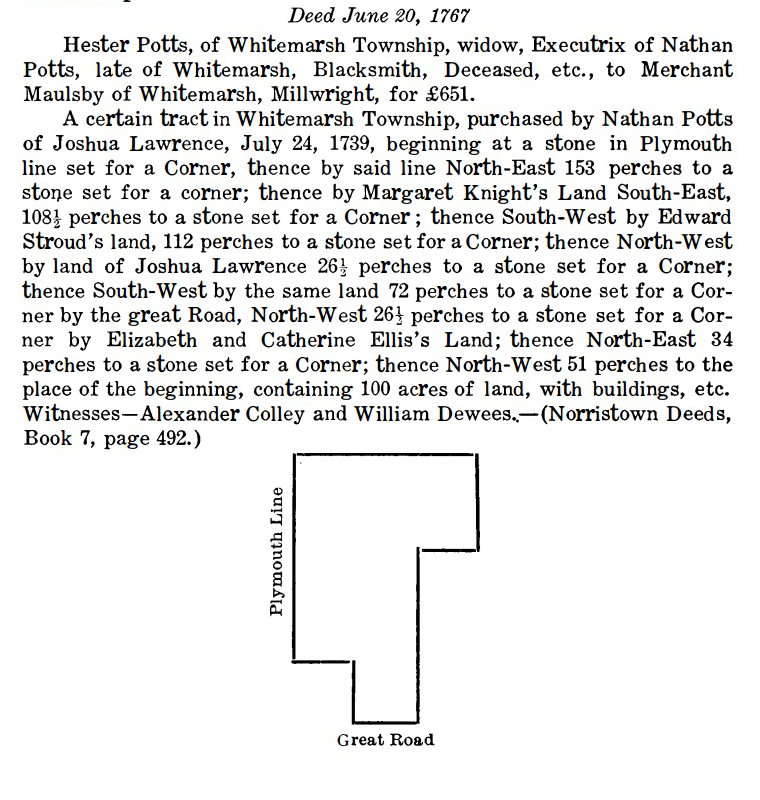 Transcription of a June 20, 1767 deed between Hester Potts and Merchant Maulsby Jr. for a 100 acre farm in Whitemarsh Township, Pennsylvania, and a hand-drawn plan.